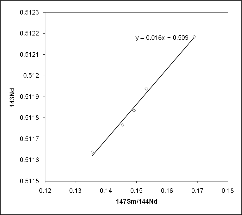 Sm/Nd isochron of samples from the Great Dyke, Zimbabwe. Diagram own work using data points from: Oberthuer, T., Davis, D.W., Blenkinsop, T.G., Hoehndorf, A., 2002. Precise U–Pb mineral ages, Rb–Sr and Sm–Nd systematics for the Great Dyke, Zimbabwe—constraints on crustal evolution and metallogenesis of the Zimbabwe Craton. Precambrian Research, 113, 293–306